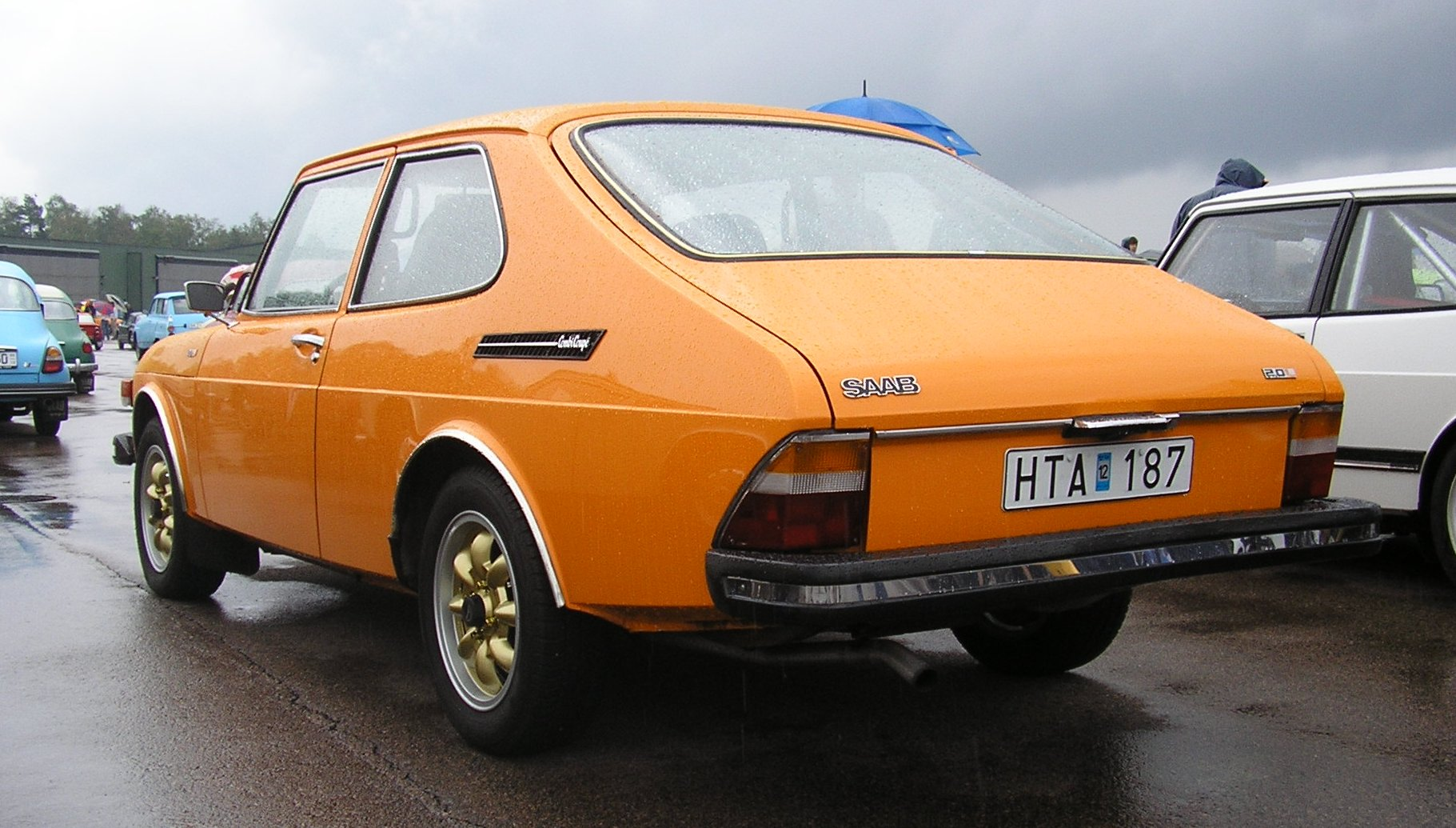 A 1975 indisk gul (indian yellow) SAAB 99 2.0L three door combi coupé with Ronal "Gold Vane" rims. Taken at the International SAAB Club Meeting 2006.